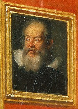 Tribuna of the Uffizi